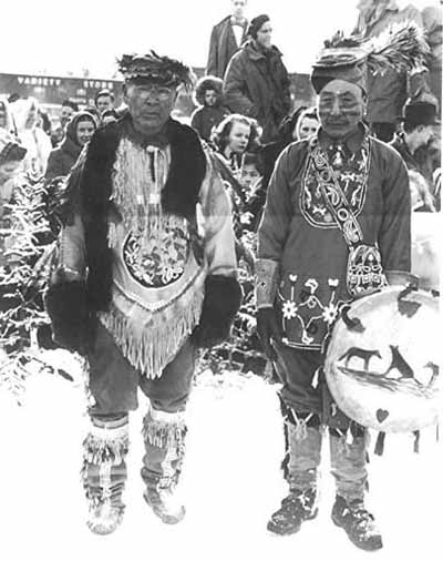 This photograph of Chief Jim Boss of Lebarge (left) and Chief John Fraser of Champagne (right) is taken during the Whitehorse Winter Carnival in 1948. During the carnival, a large group of Indian people dance on the stage in the Capital Theatre.[1] ↑